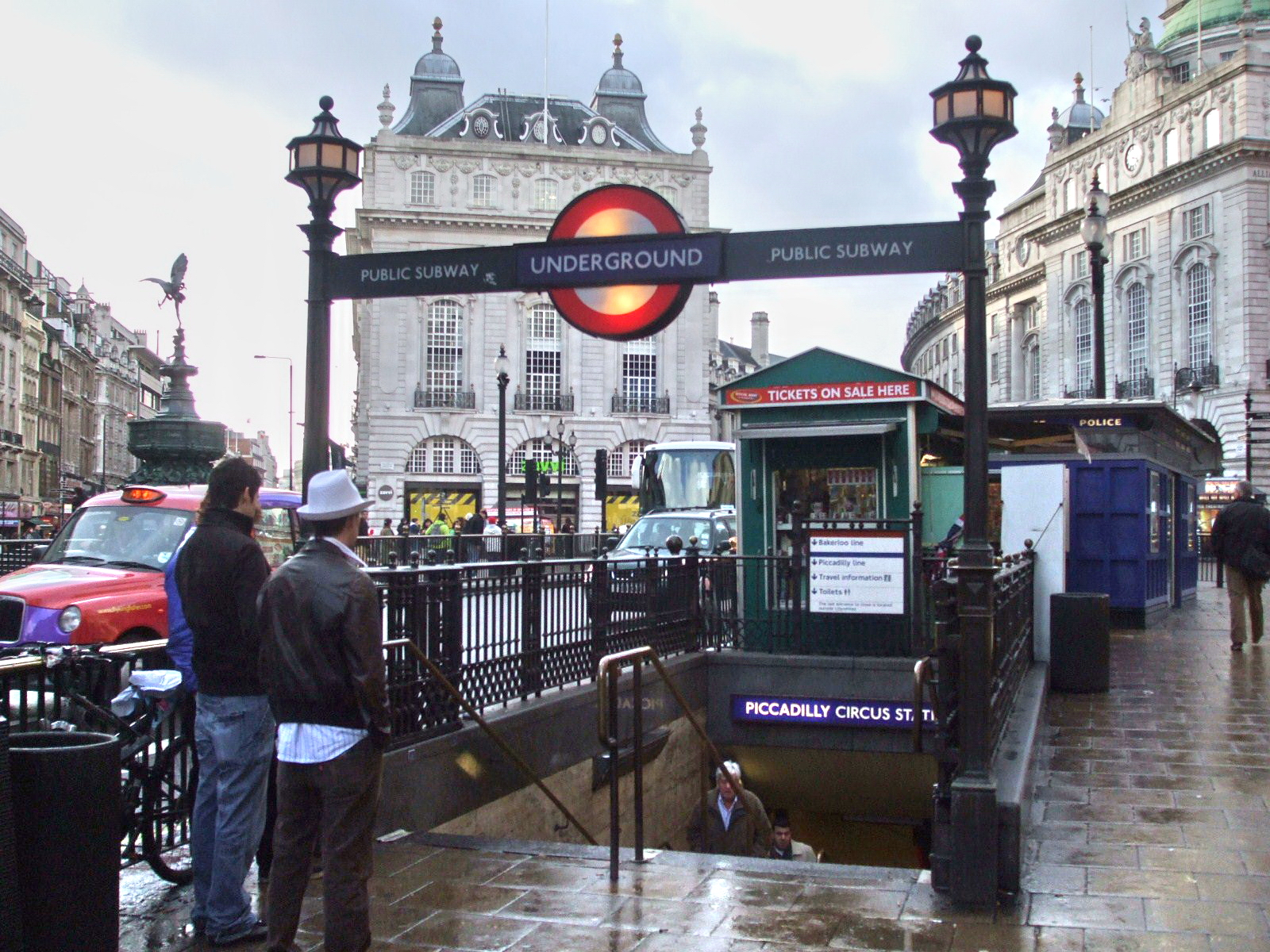 Piccadilly Circus tube station entrance outside the Trocadero, looking towards Piccadilly Circus itself